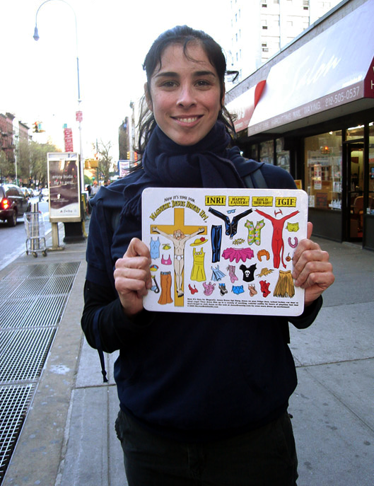 Sarah Silverman displays her new Jesus Dress Up magnet set, given to her as a gift from Normal Bob Smith, who says, "I gave her the set in passing and she was happy to pose for a picture with them." The location is 14th Street & 1st Avenue, in New York City's East Village of Manhattan.